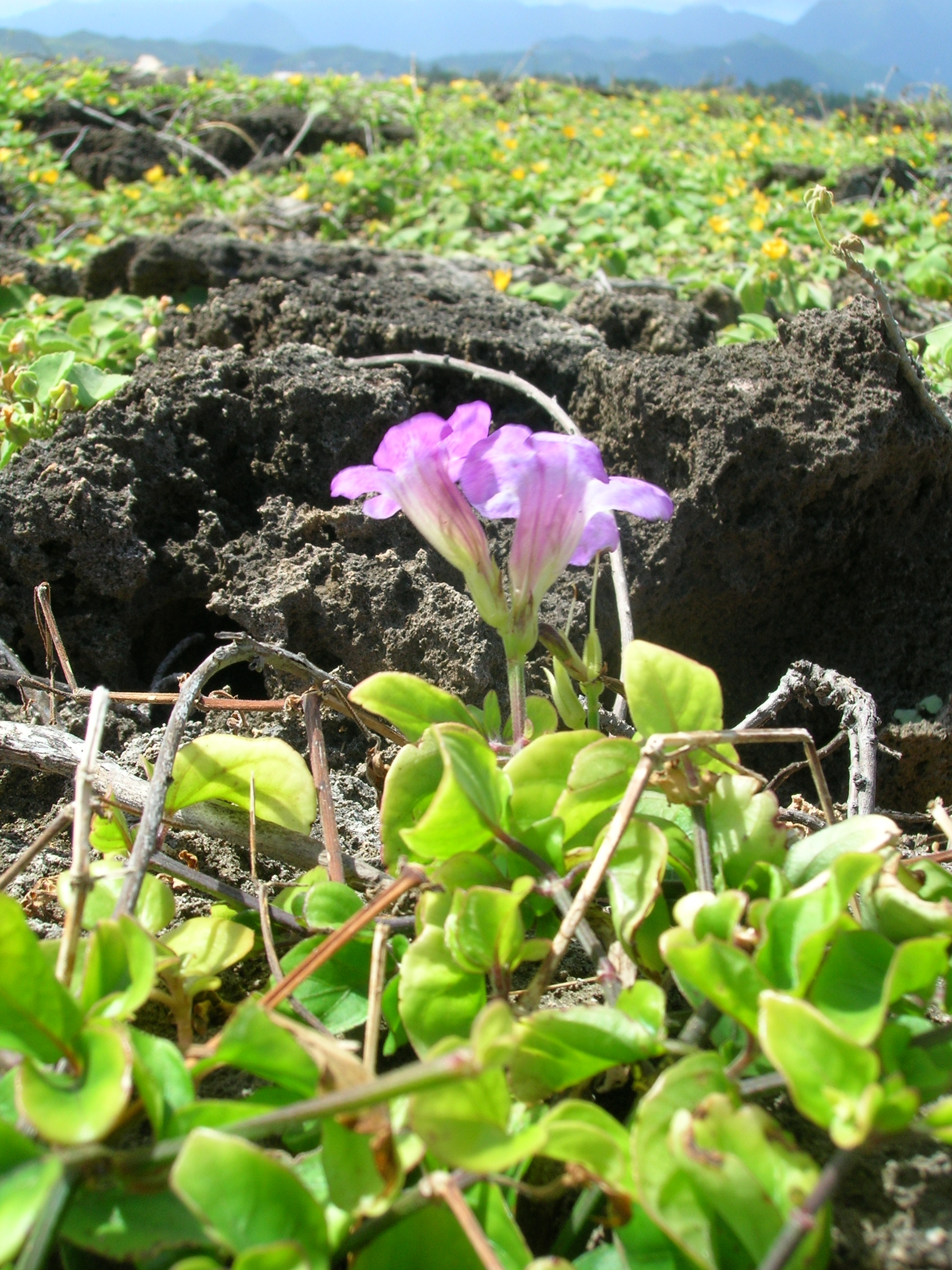 Asystasia gangetica (flowers). Location: Oahu, Kekepa